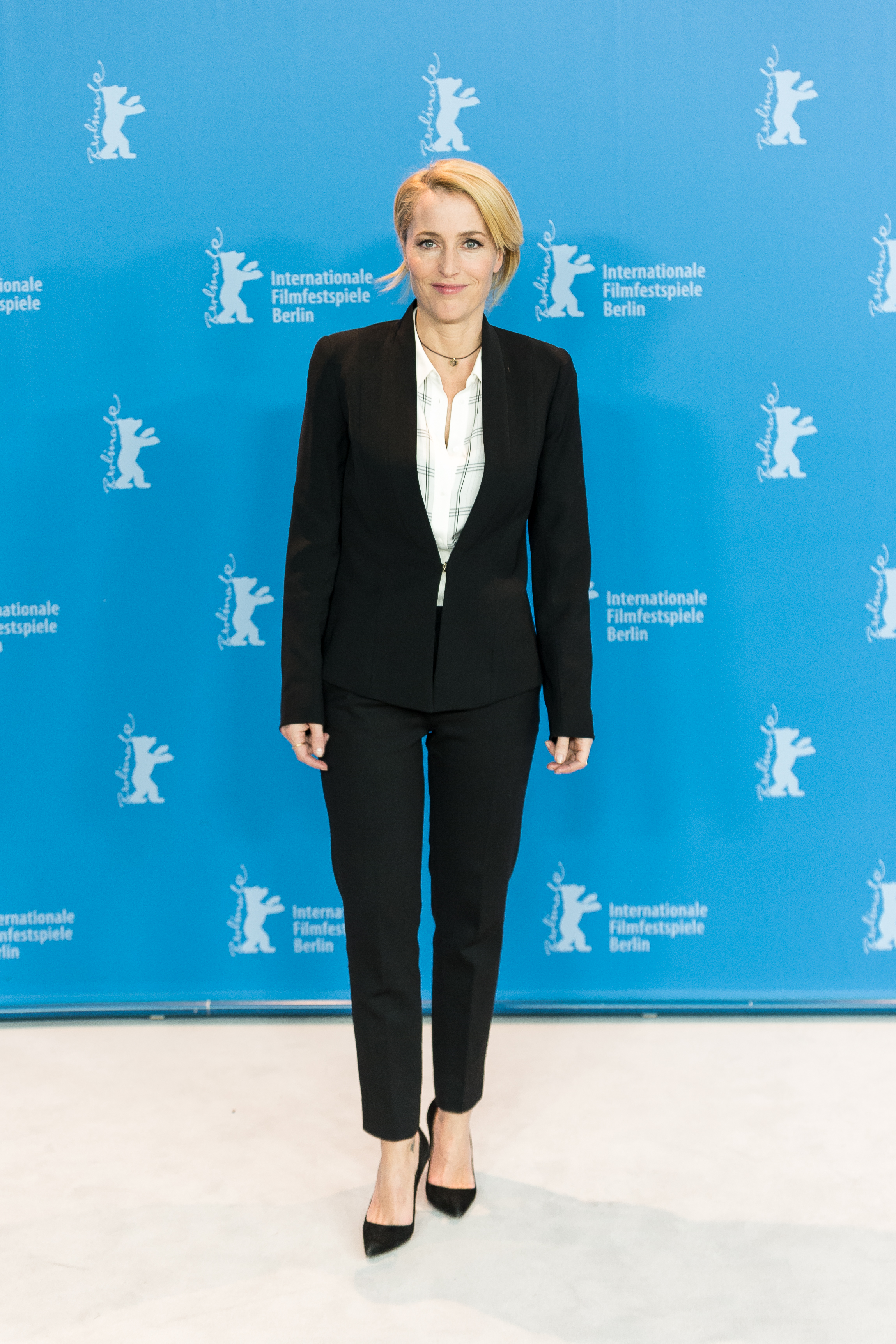 Gillian Anderson presenting the movie Viceroy's House at the Berlinale 2017